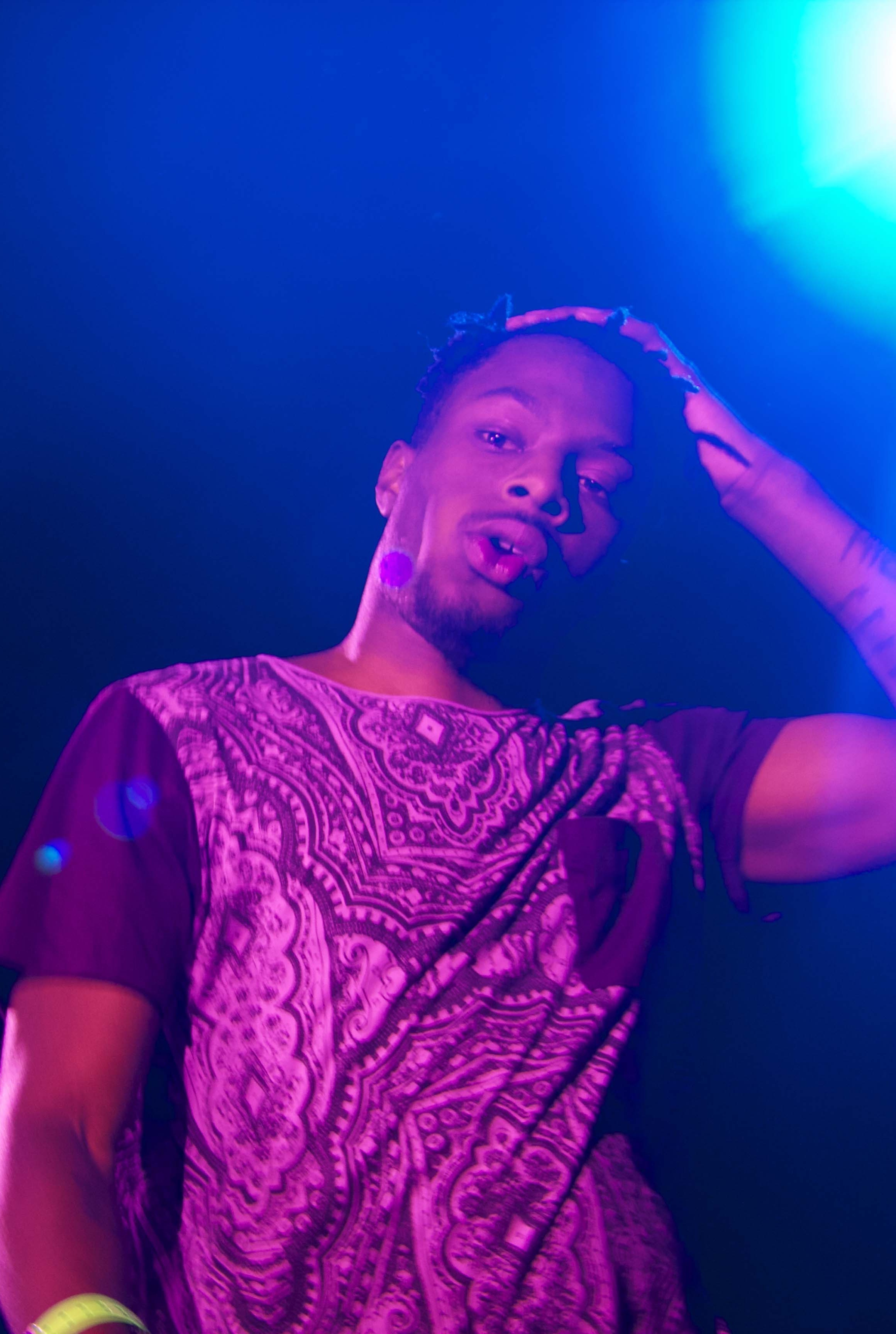 Isaiah Rashad in February 2014